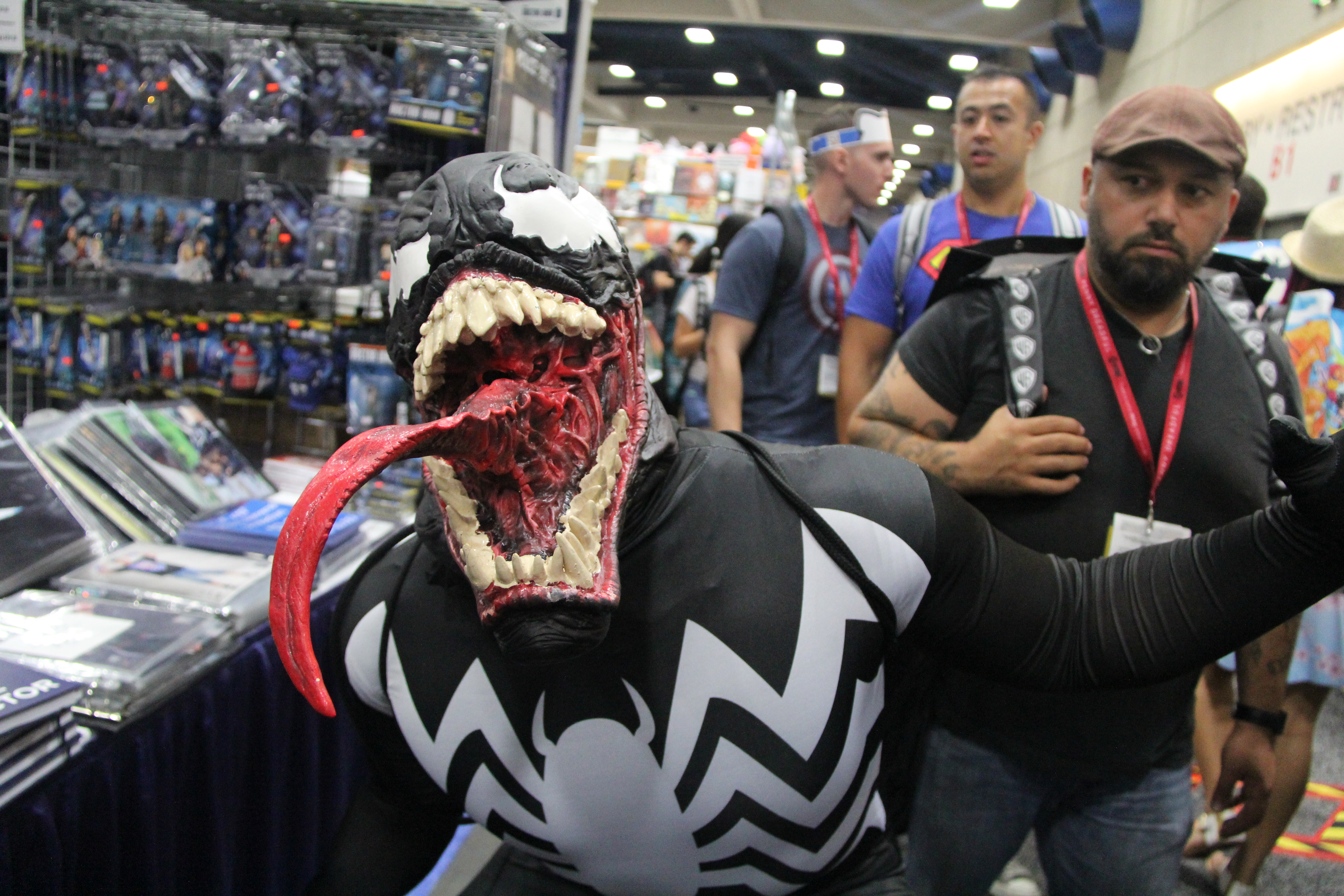 IMG_0425 Cosplay at San Diego Comic-Con (SDCC 2014).